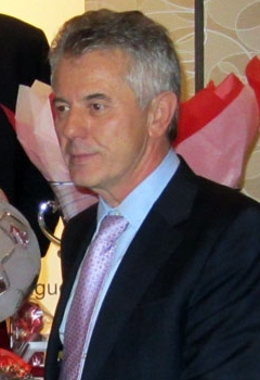 Joe Pavicic in 2012 with Toronto Croatia.